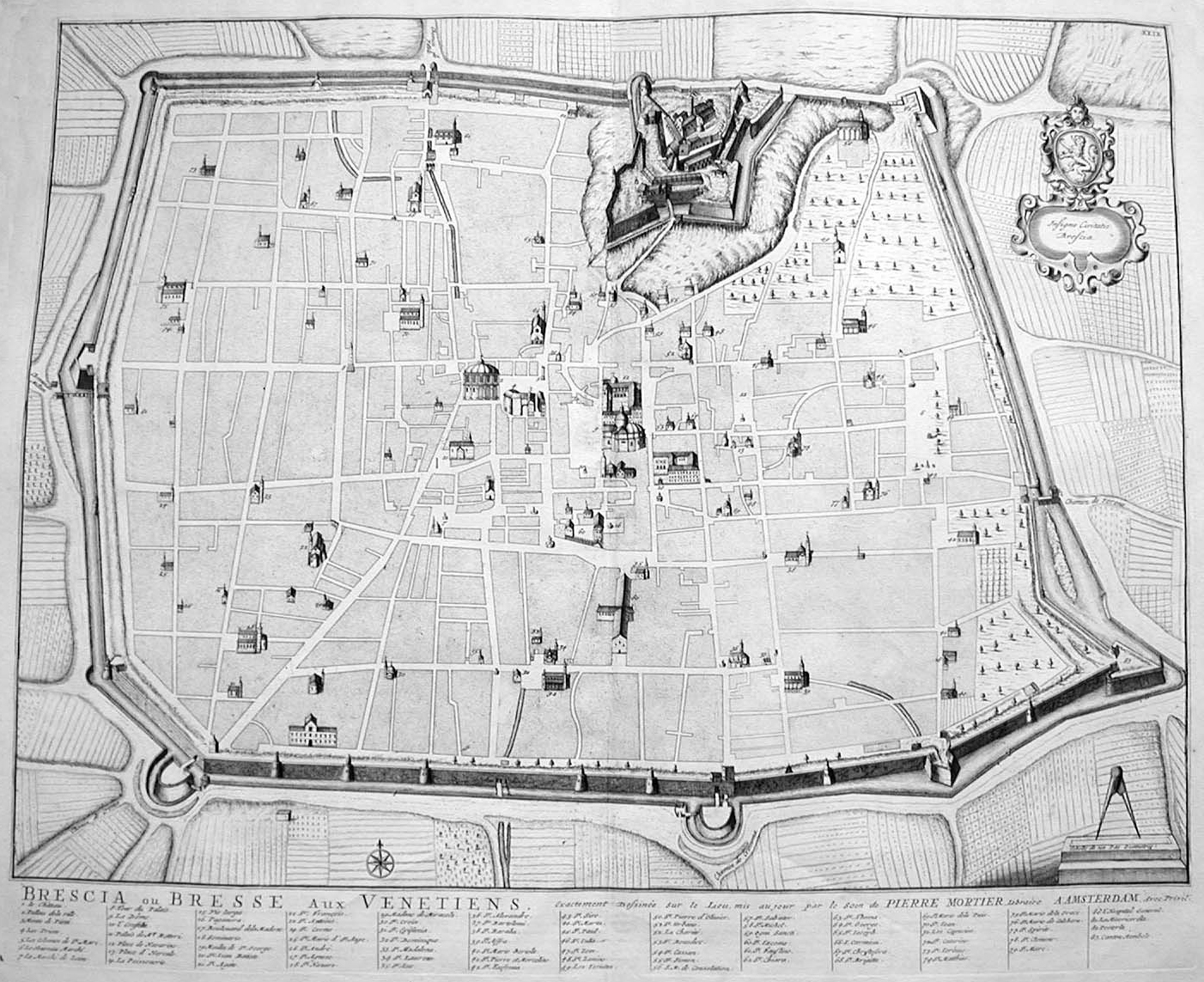 Pierre Mortier (1661-1711), engraving showing the map of Brescia at the end of 17th century or at beginning of 18th. Picture by: Giovanni Dall'Orto, 21-7-2006.